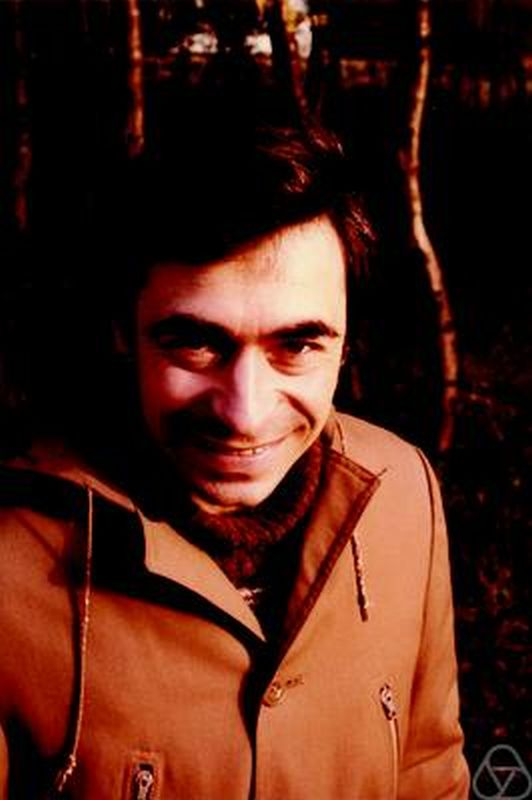 Yakov Pesin 1981